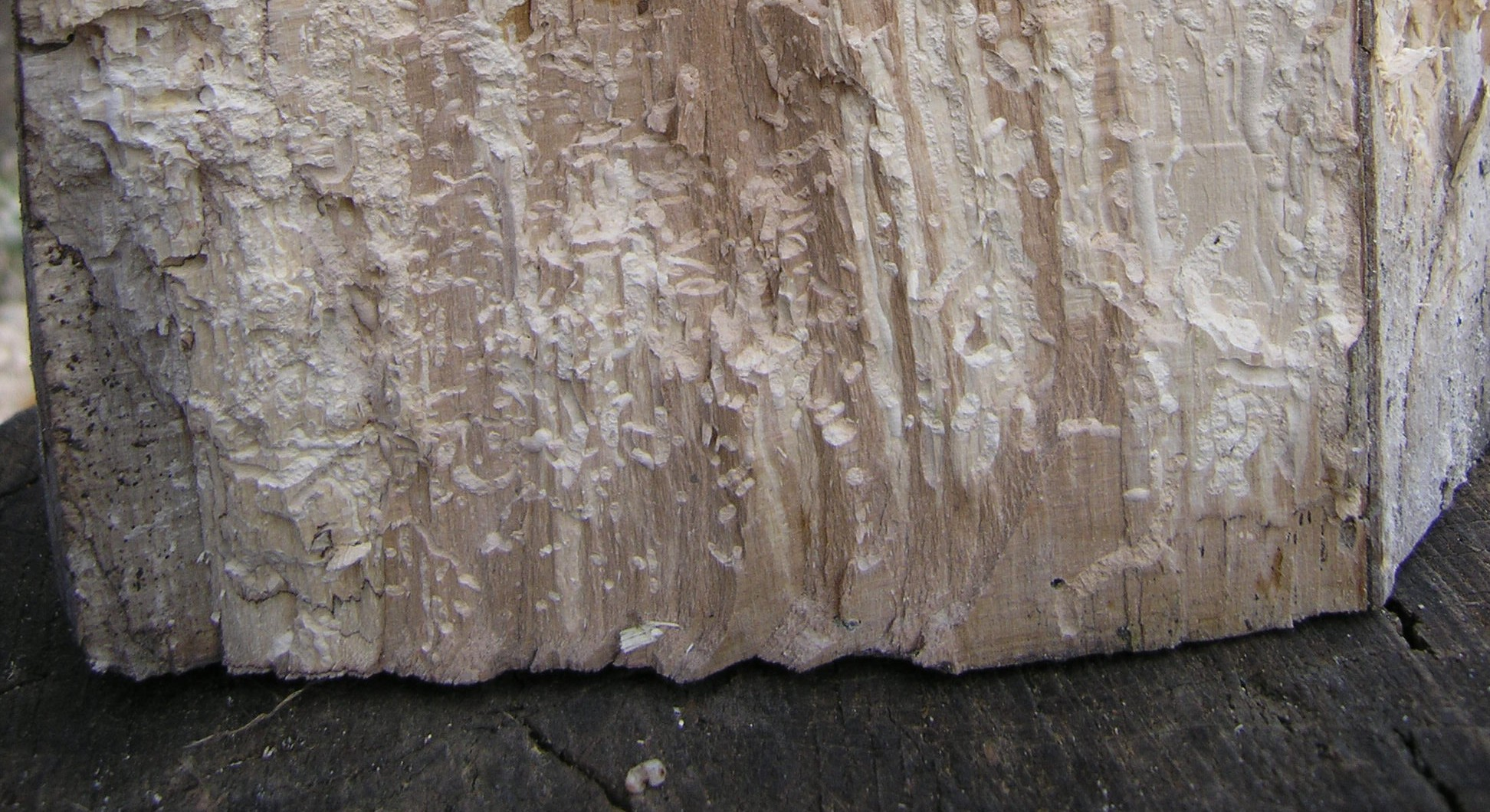 Cavities in beech wood, heavily damaged by the common woodworm (anobium punctatum) Place: Hannover, Germany Date: 14.4.2006 Photographer: Kai-Martin Knaak